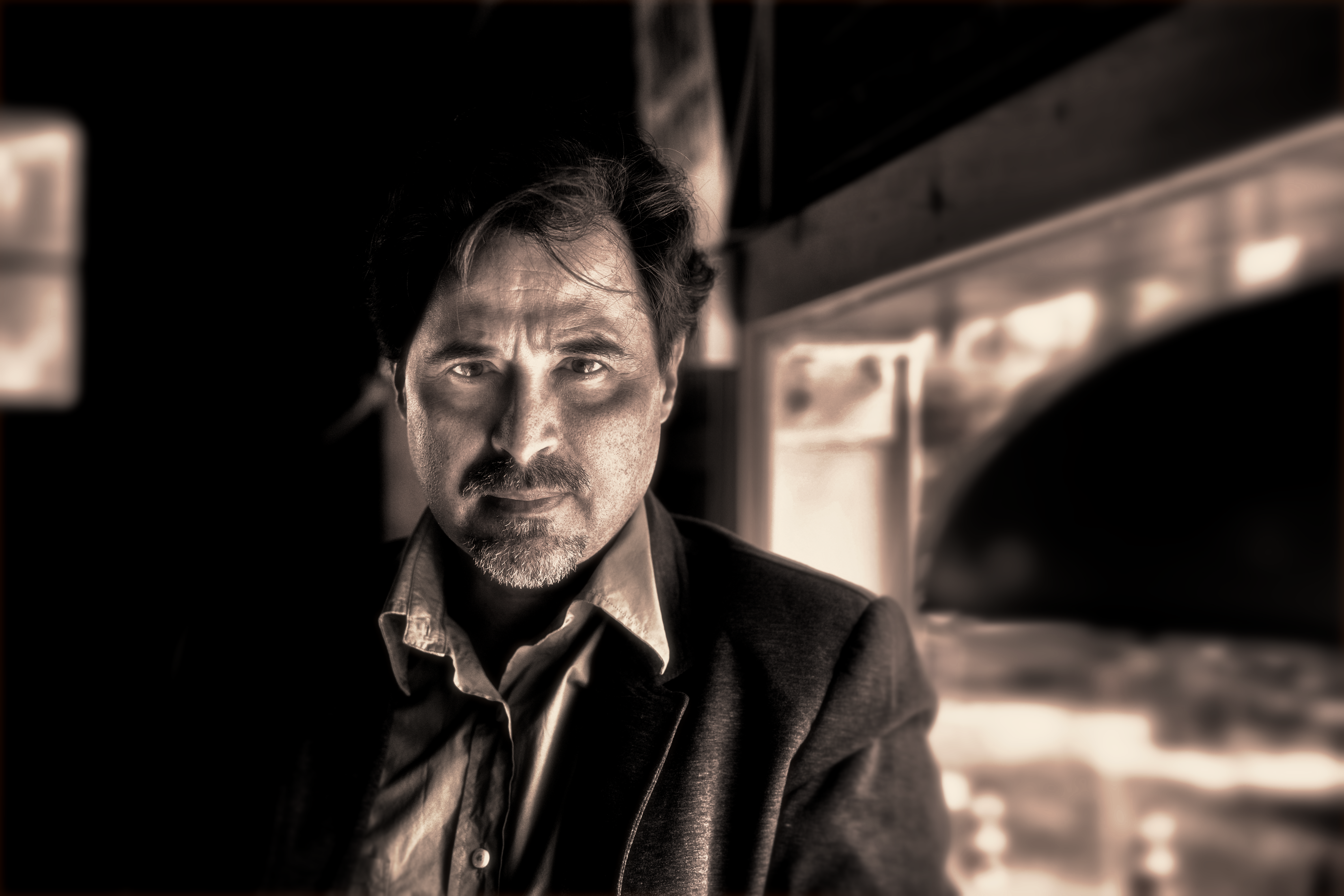 The Angolan writer José Eduardo AgualusaLëtzebuergesch: Den angolanesche Schrëftsteller José Eduardo Agualusa